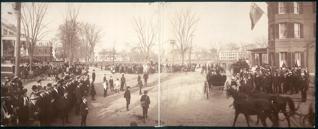 Library of Congress photo dated 1904 of Dartmouth College in Hanover, New Hampshire. Summary given: "Crowds gathered along street watching horses and carriages riding toward campus. May be Homecoming or Founders' Day activities."